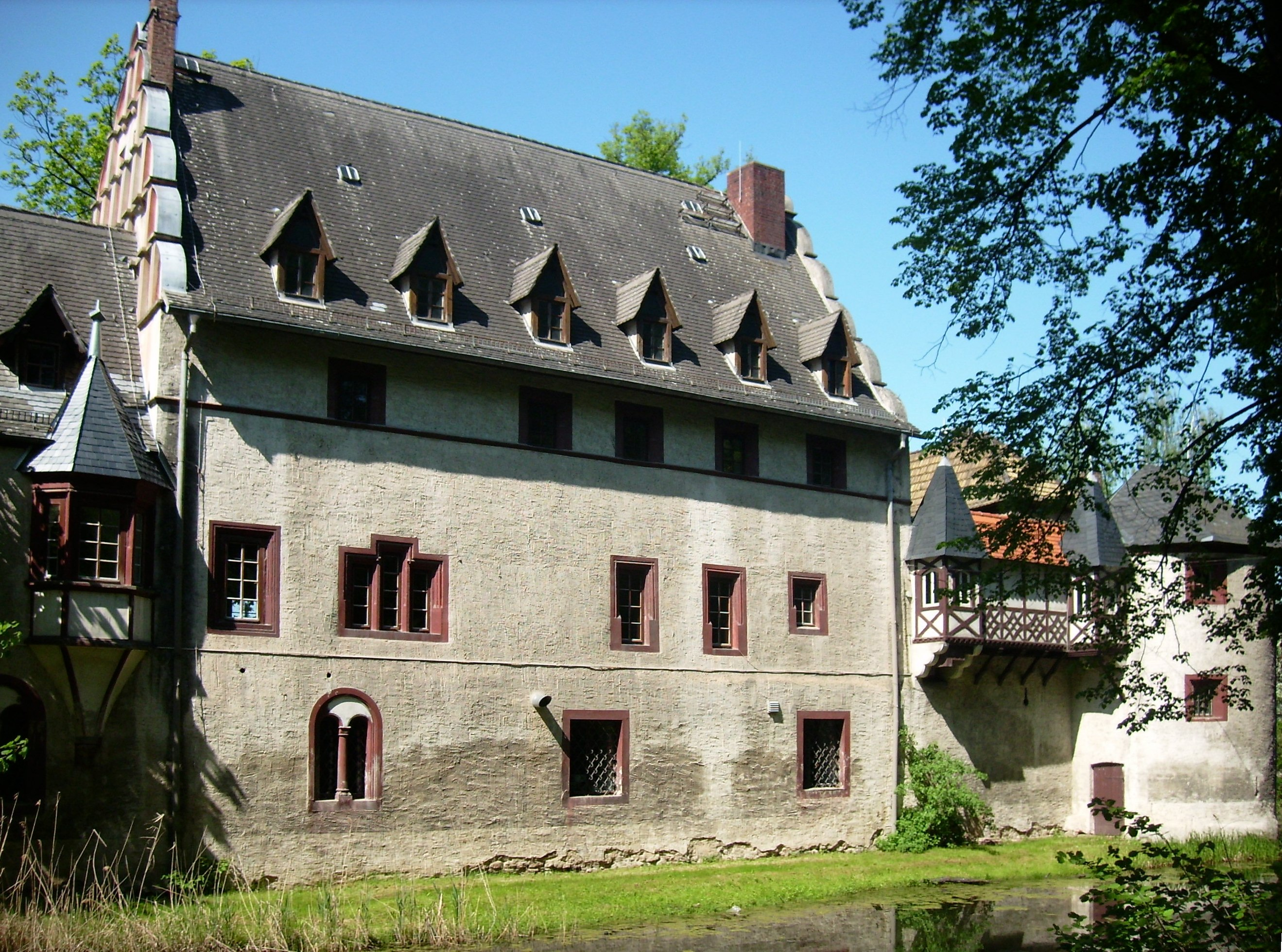 East side of Windischleuba Castle (district of Altenburger Land, Thuringia